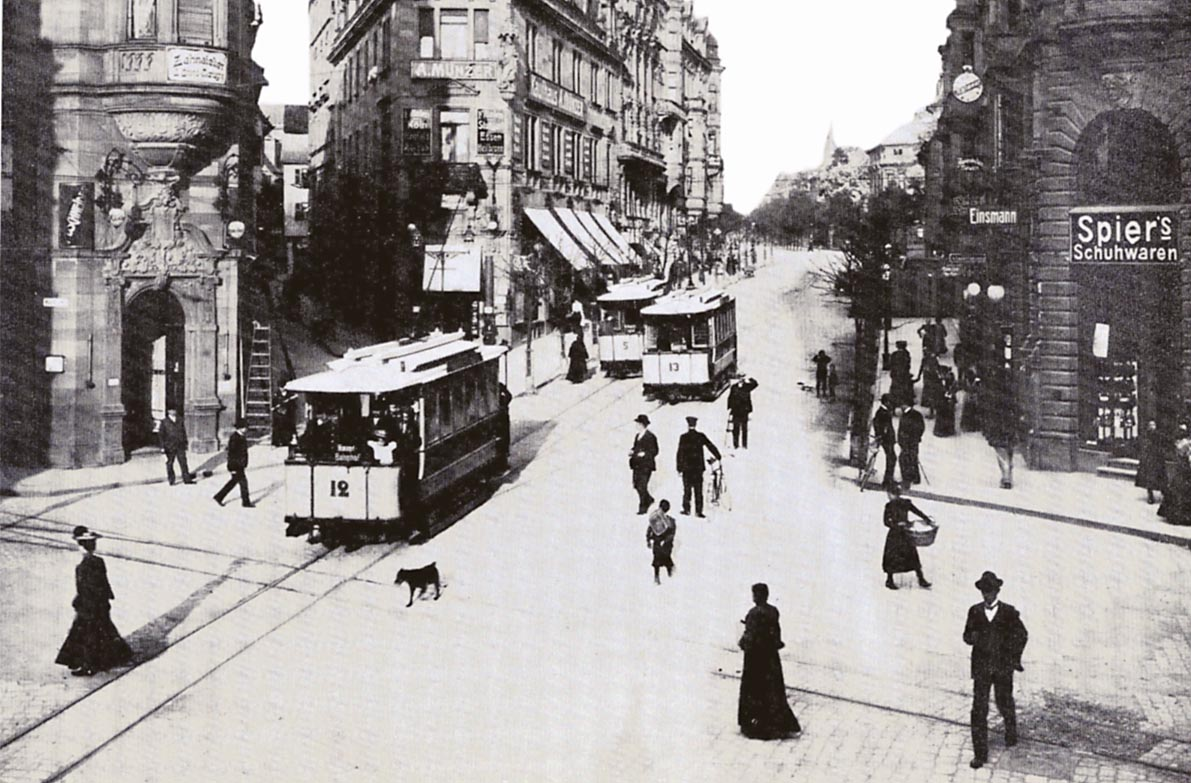 The Kiliansplatz square in Heilbronn with trams in 1905